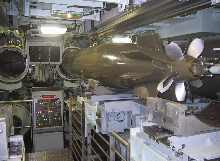 Torpedo room L4 or L5 in the atomic submarine Le Redoutable of the French SNLE Type. Picture taken in may 2002 in the museum Cité de la Mer in Cherbourg.